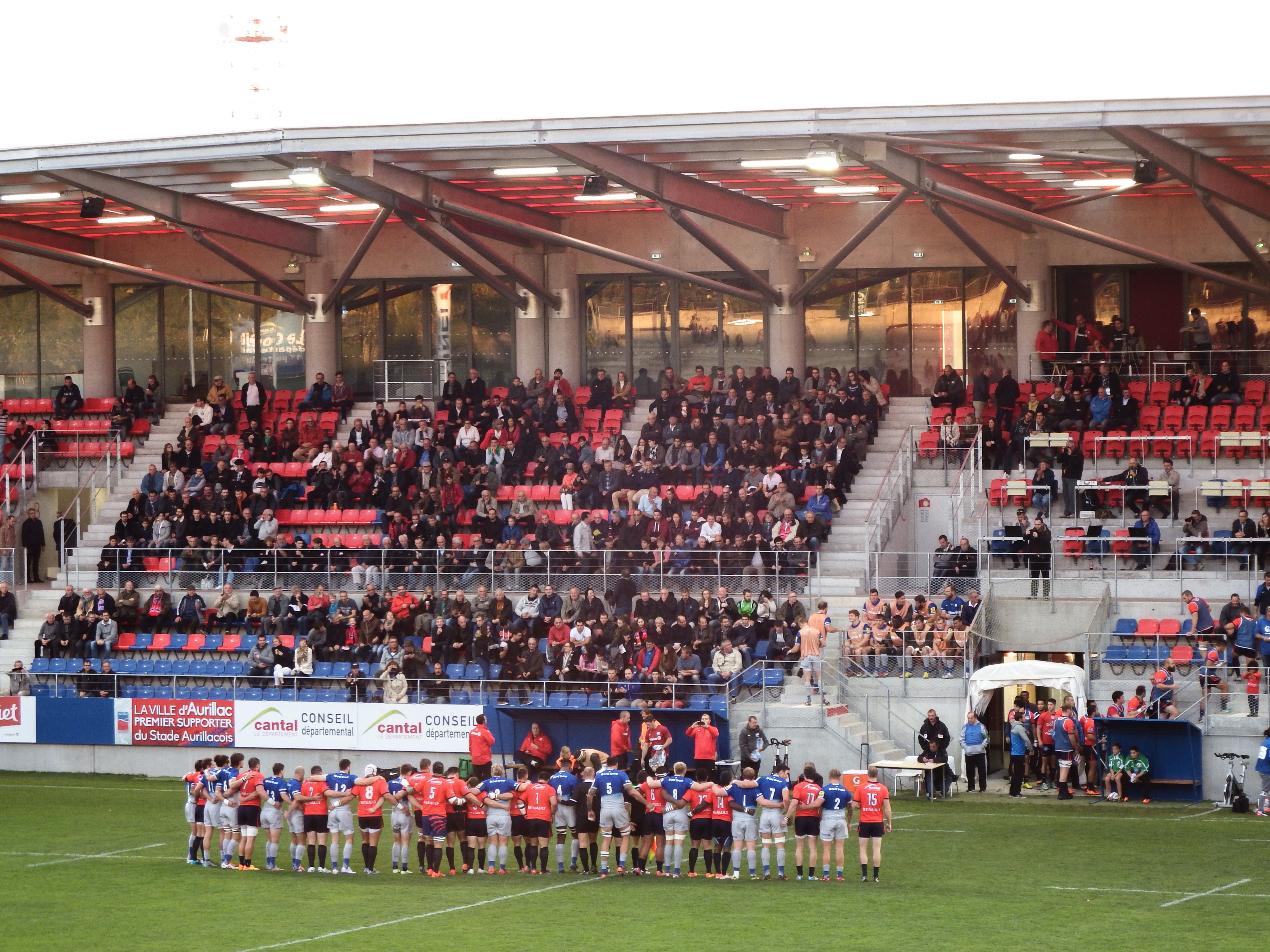 9 October 2015, Stade Jean-Alric. Match between: Stade aurillacois — Saracens F.C.